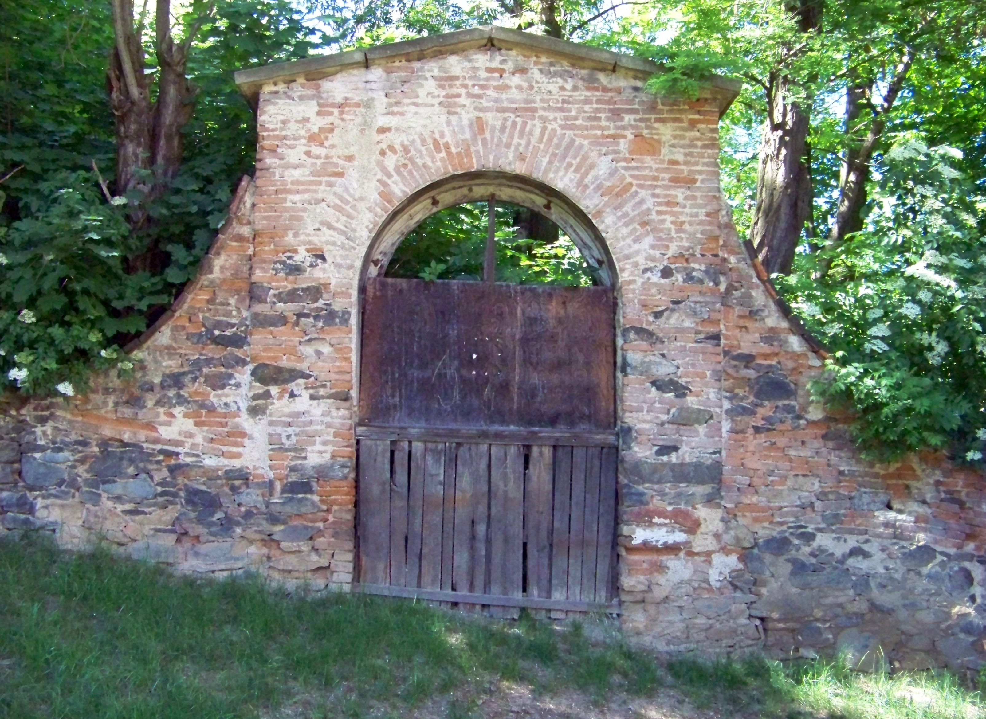 Prague-Sedlec, the Czech Republic. V Sedlci street, a garden gate.